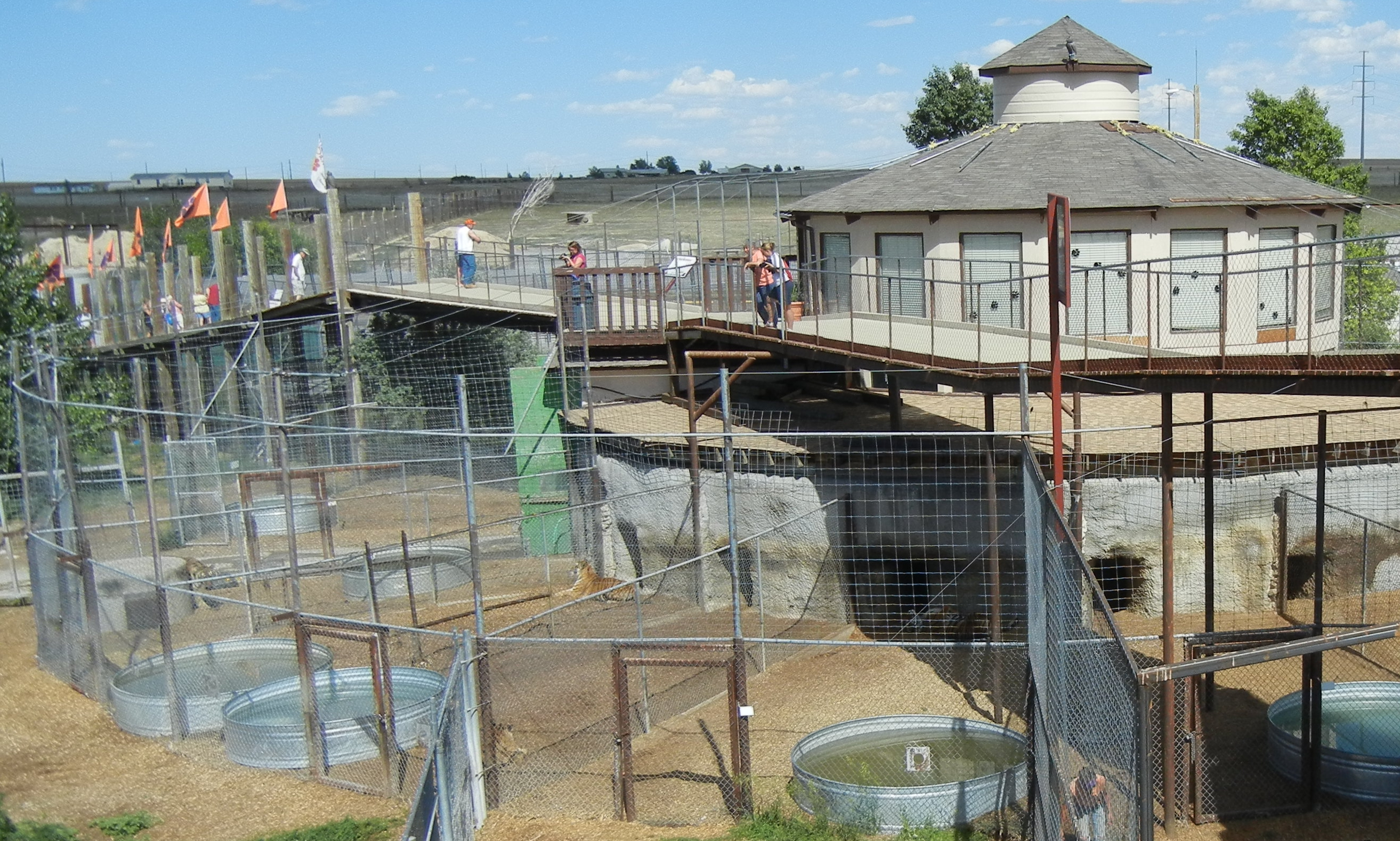 Central receiving compound with second floor education center, surrounded by outdoor areas for animals being acclimatized.